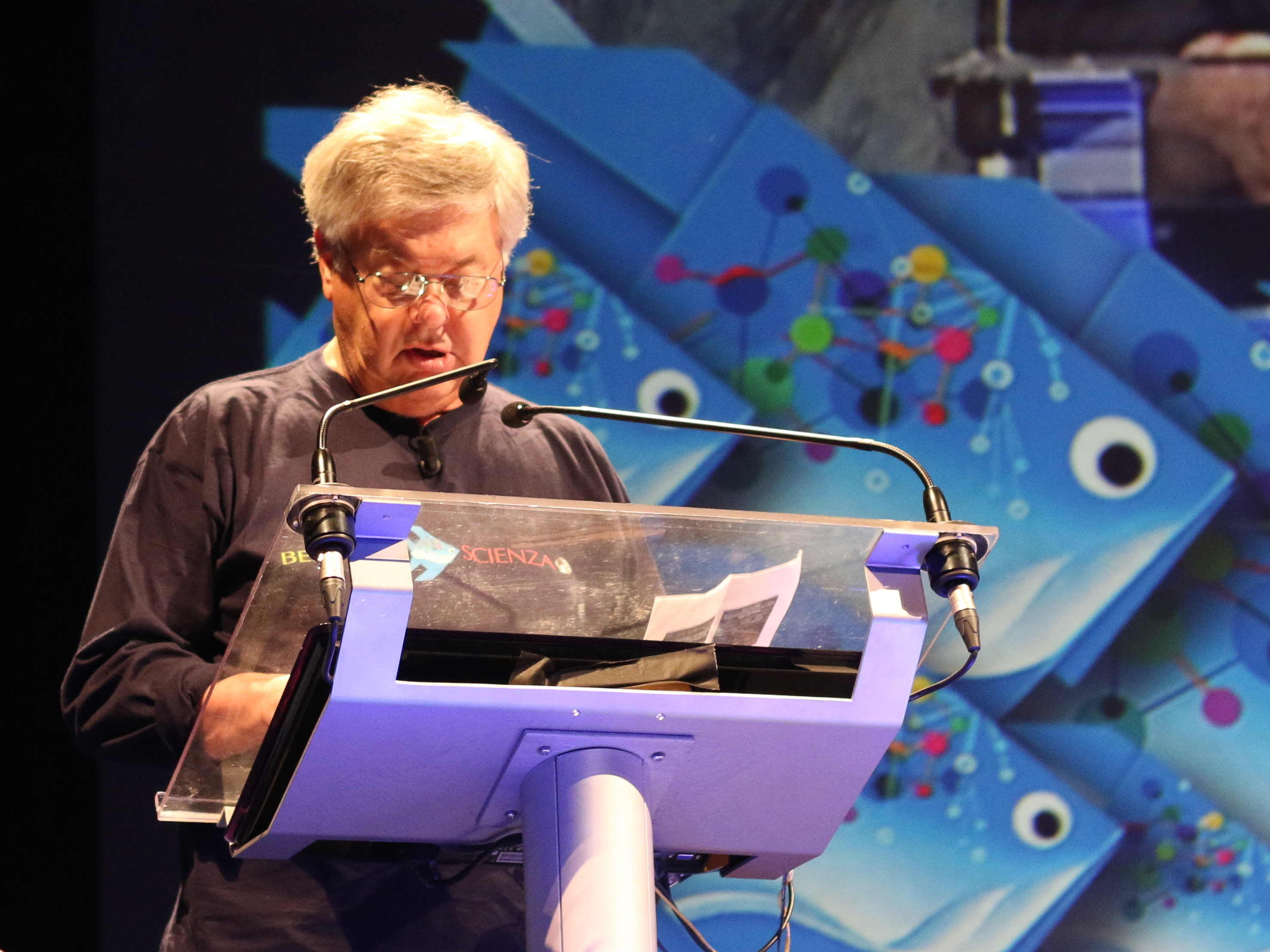 Michael Stuart Brown on the stage of "Teatro Sociale" in Bergamo at the 2014 edition of BergamoScienza during the presentation "Un Secolo di Colesterolo e Coronarie".